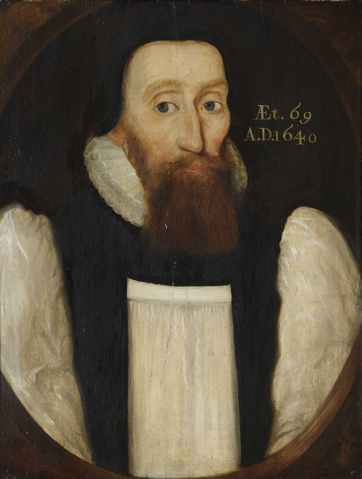 Portrait of John Davenant (1572-1641), Bishop of Sailsbury, Fellow (1597–1614), President (1614–1621)